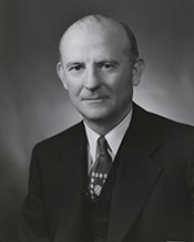 former Congressman Karl C. King.